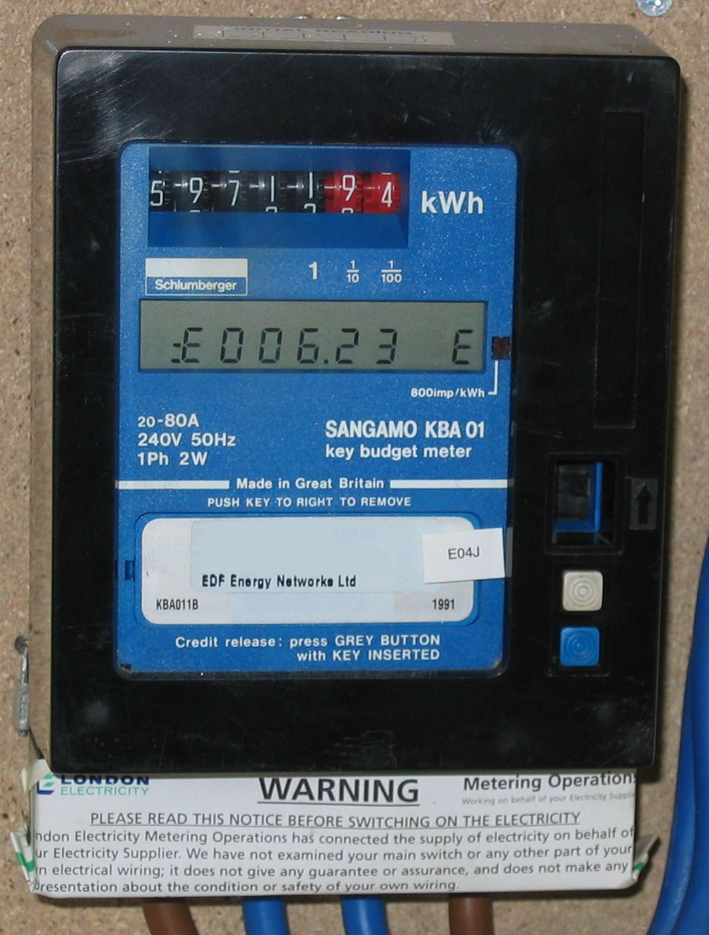 Electricity key meter - UK. Electricity key meter - the user charges up the key in a shop and the money transfers to the meter. This is the meter - Image:London electricity keymeter key.jpg is the key.